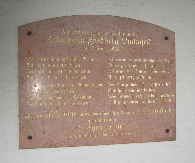 Remembrance at the railway-station in Pinkafeld, Burgenland, Austria